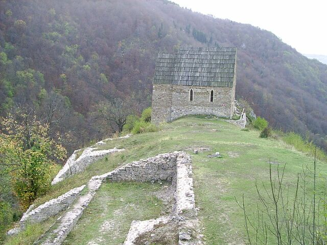 Bobovac Fortress, Bosnia and Herzegovina